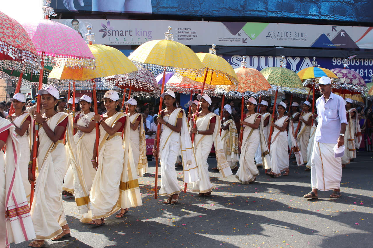 54th State School Youth Festival Goshayatra1